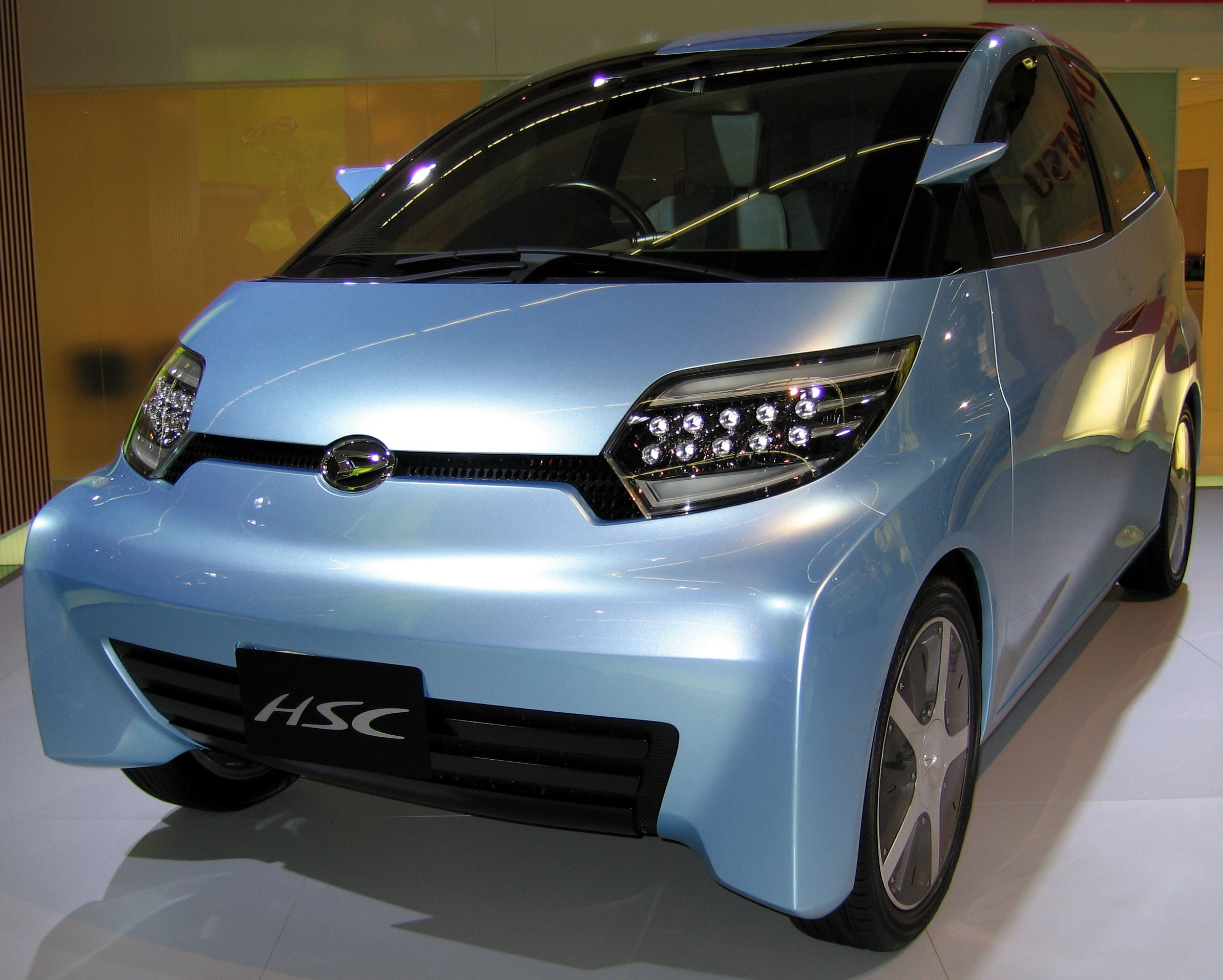 Daihatsu HSC at the IAA 2007